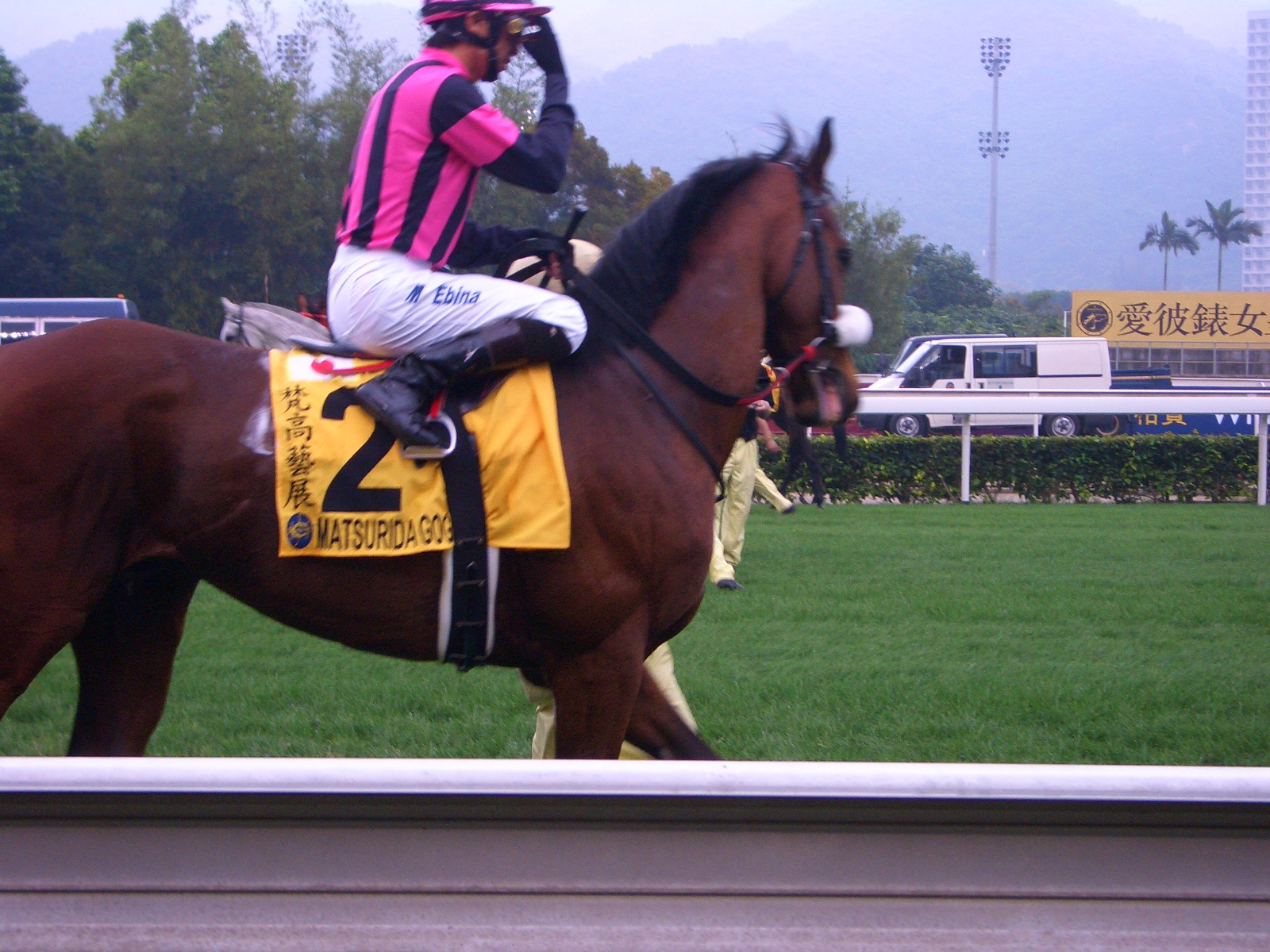 Matsurida Gogh on QEII Cup